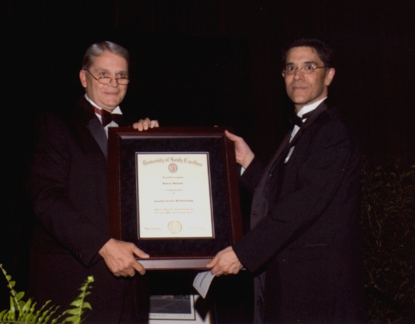 Roberto Refinetti (on the right) receiving the Carolina Trustee Professorship award in Columbia (South Carolina) in May 2006